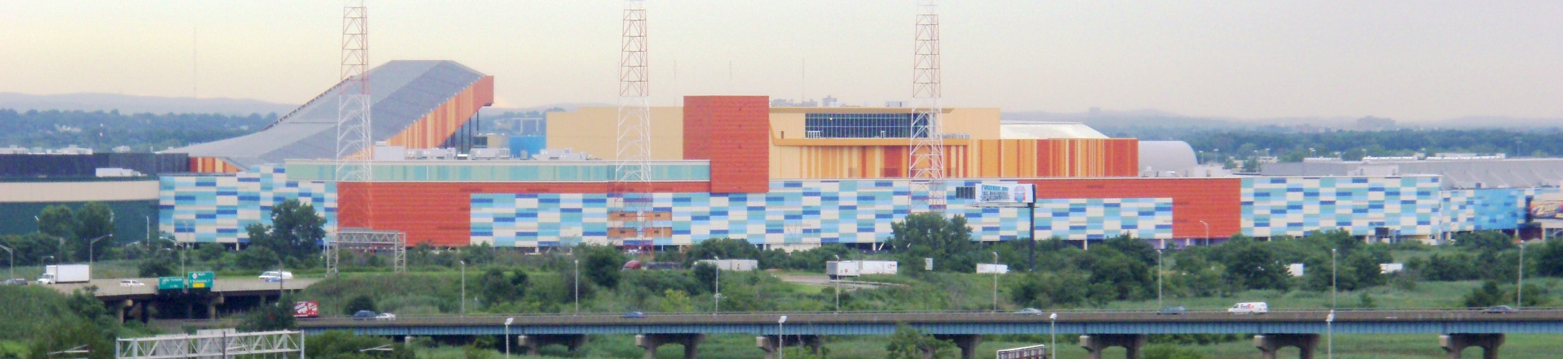 The eyesore known as Xanadu meadowlands, seen from Secaucus, NJ.